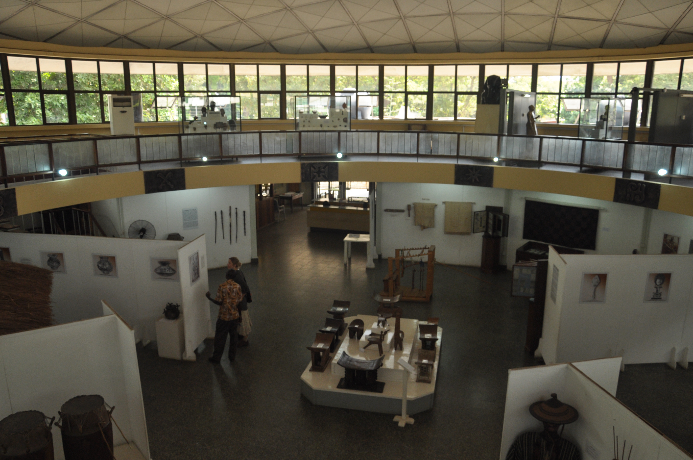 This is the view of the ground floor of the museum from the floor above in the main area